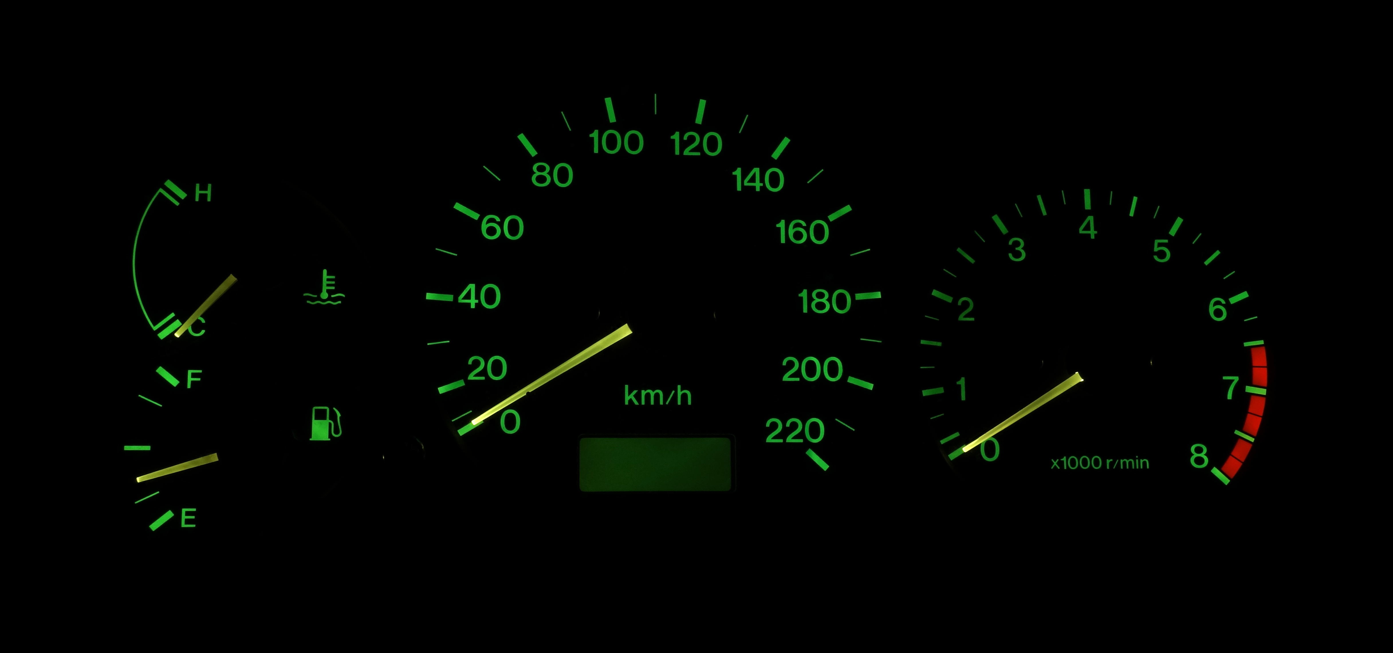 Dashboard dials on a 1998 Mazda BA 323 registered in Sweden.